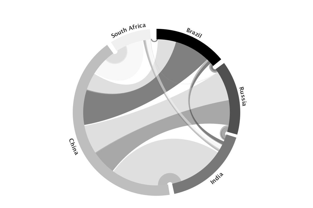 Monochrome dependency wheel 2016 BRICS export in a million USD